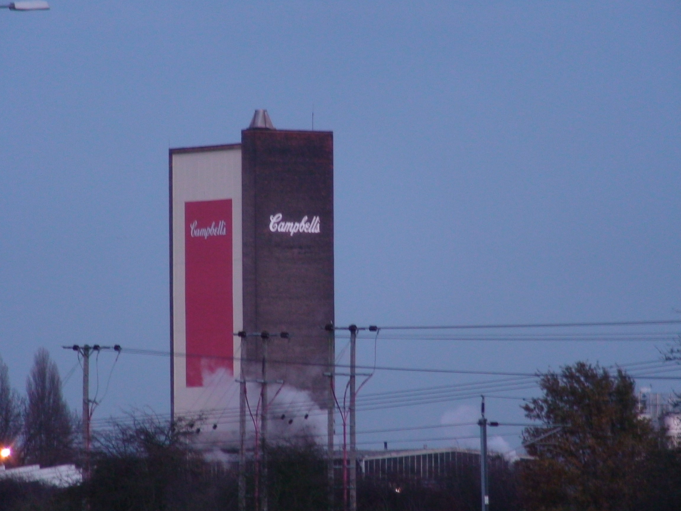 The Campbell's Soup Tower in King's Lynn at dusk.